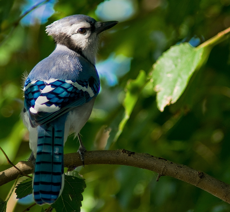 Blue Jay at Battery Park in Old New Castle, Delaware, USA.